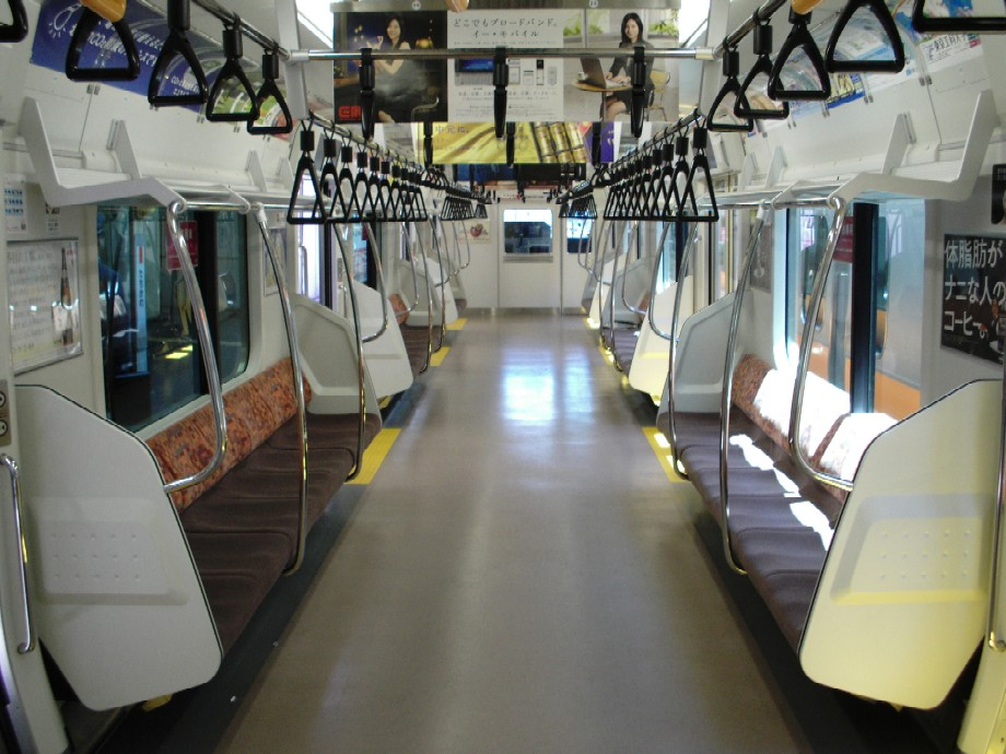 The interior of JR East E233-0 (Taken at Tachikawa Station)